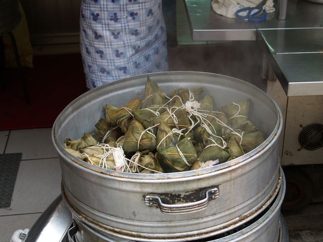 a rice dumpling wrapped in bamboo leaves, Taken by ResTpeTw on April 29th. 2007